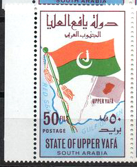 Postage stamp of Upper Yafa (South Yemen), 1967